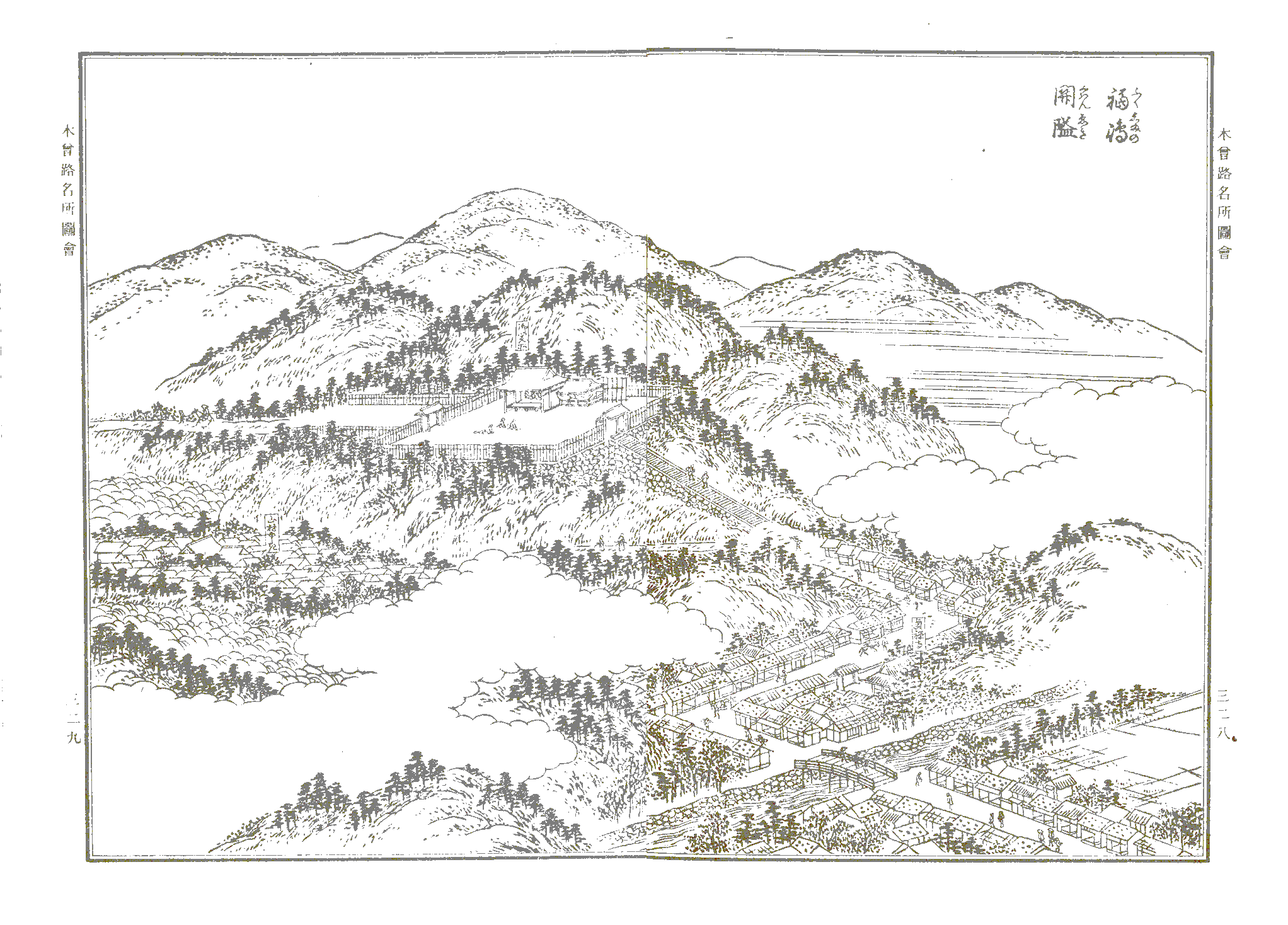 Fukushima checking station in Nakasendou Road, Edo Period,Japan.